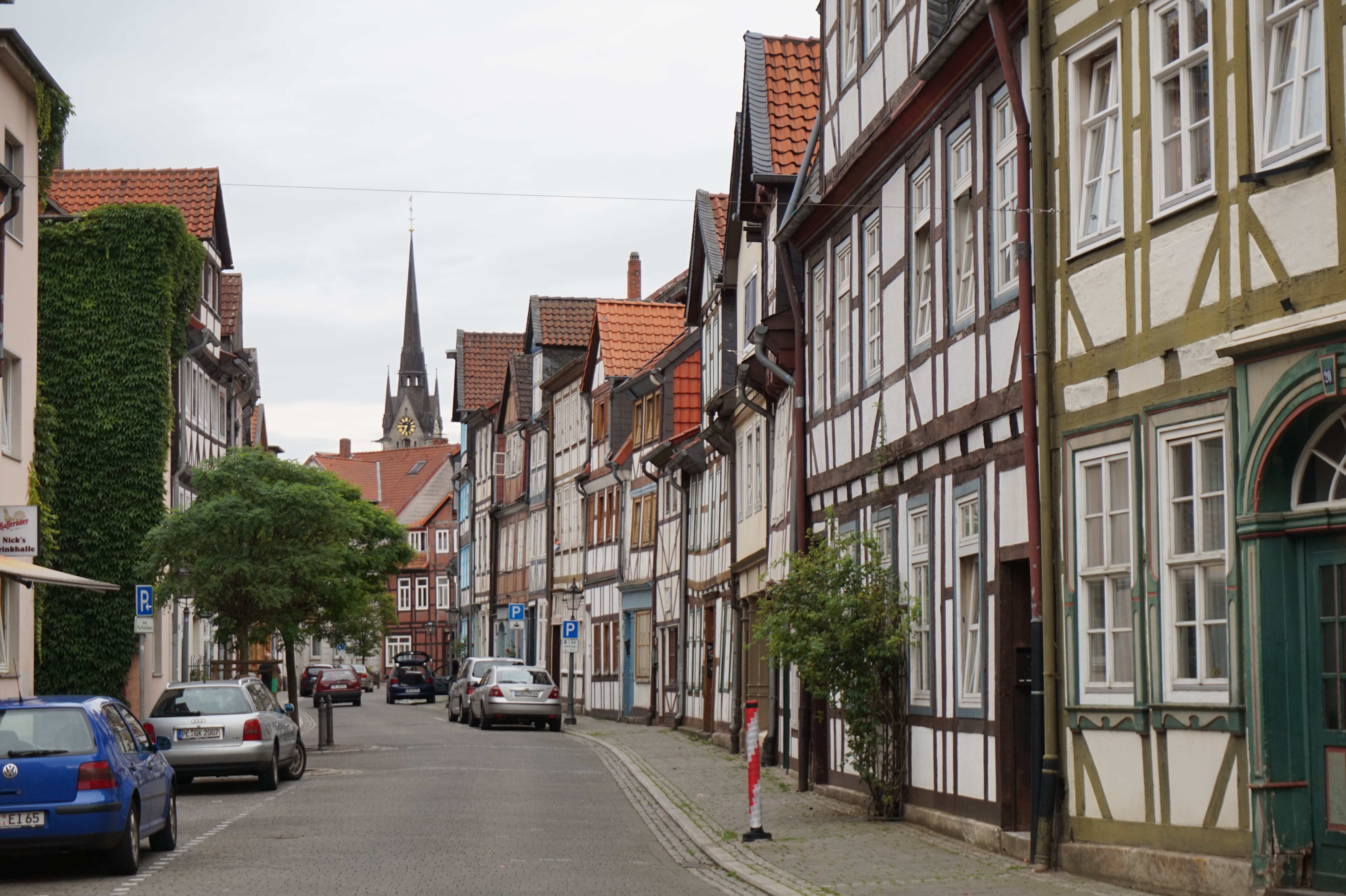 View to the east Damm street in Peine, Lower Germany, Germany